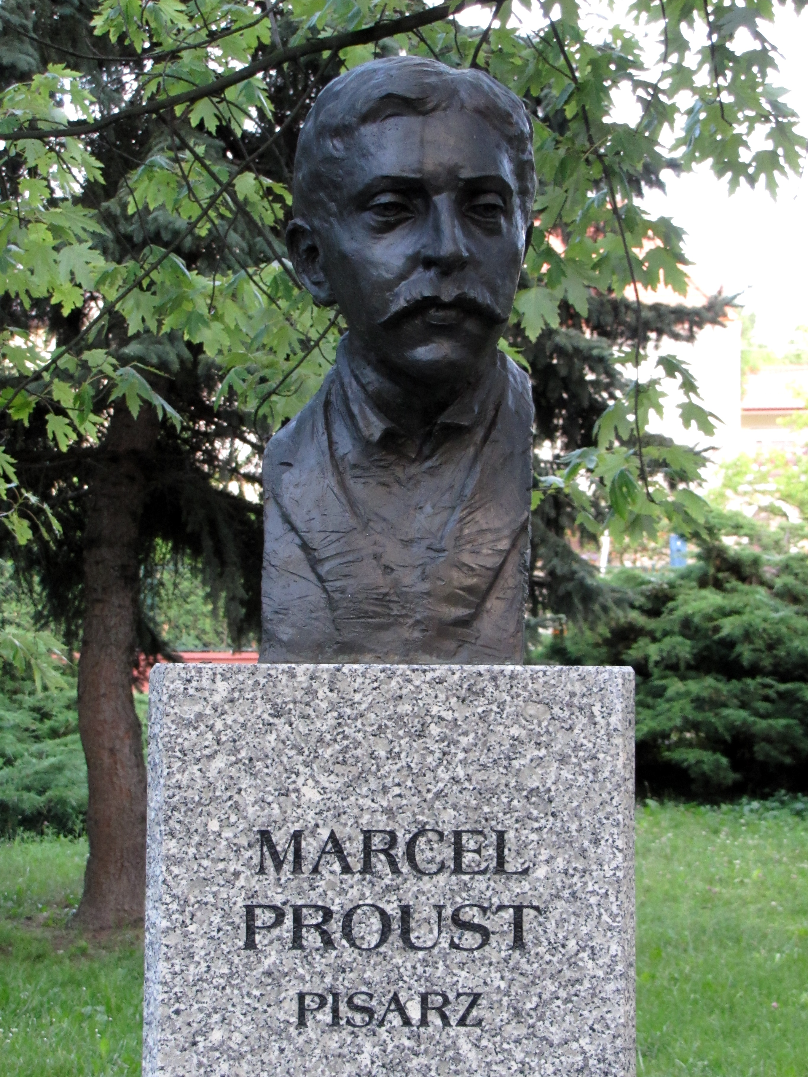 Bust of Marcel Proust in Celebrity Alley in Kielce (Poland)